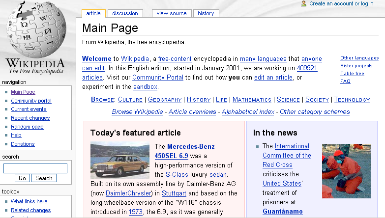 Main page of Greek WIkipedia